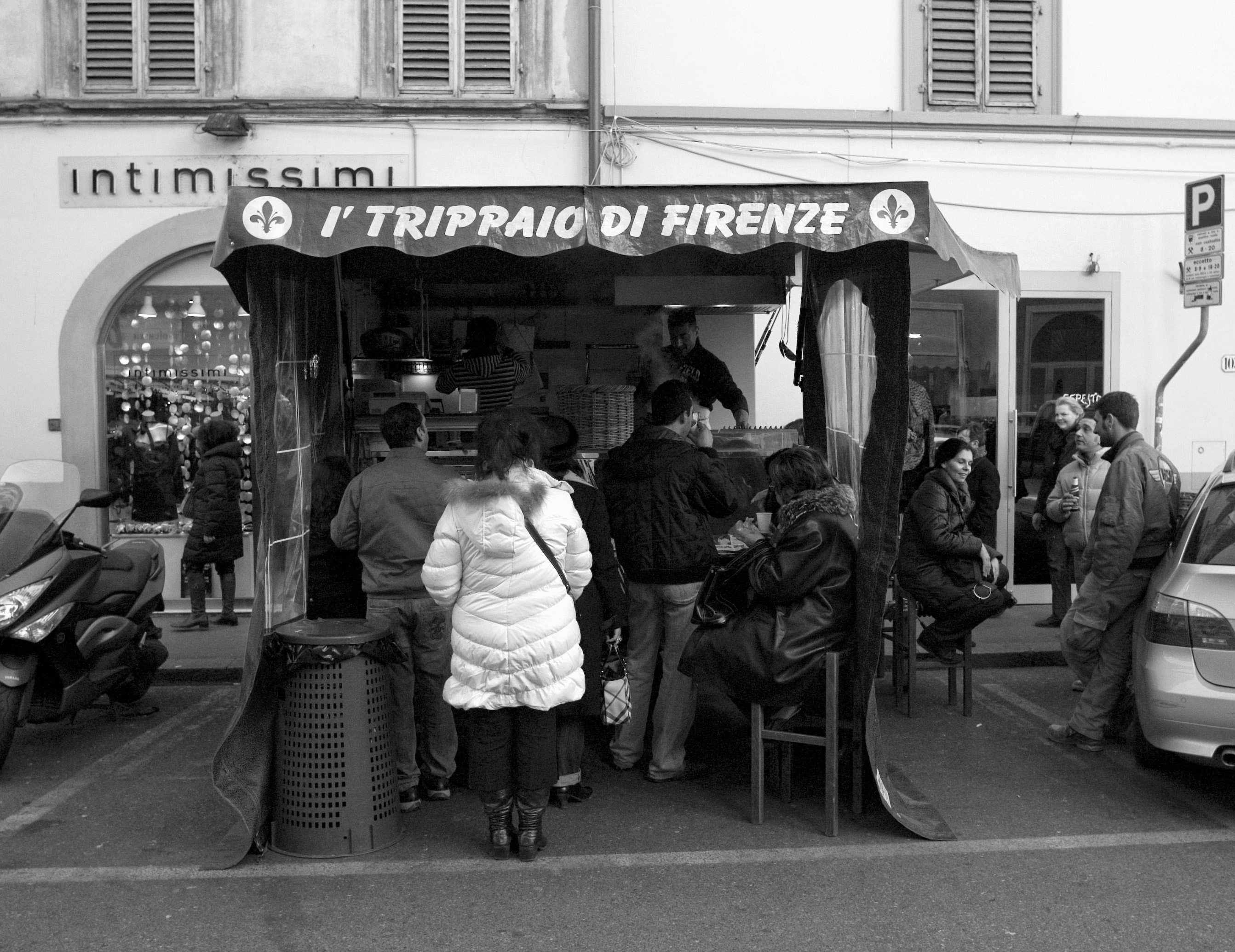 Seller of lampredotto in Via Gioberti, Florence - Italy.